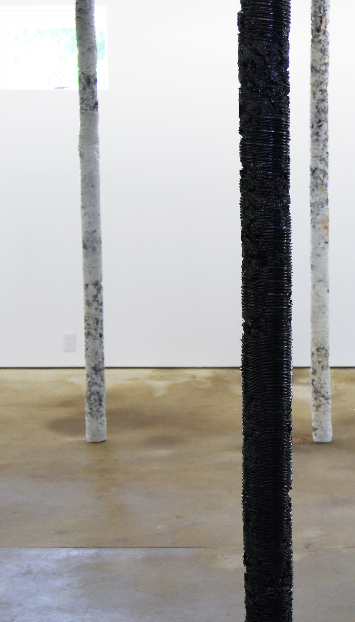 Helmut Lang, MAKE IT HARD, 2011, Resin, pigment and mixed media. Photo: HL-ART.